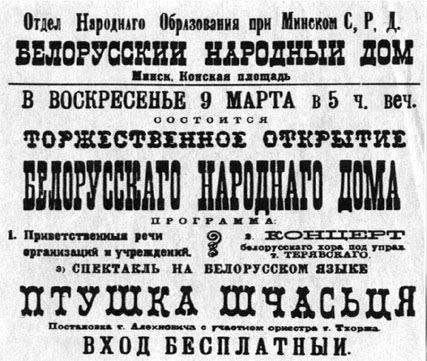 Belarussian Folk House. Playbill